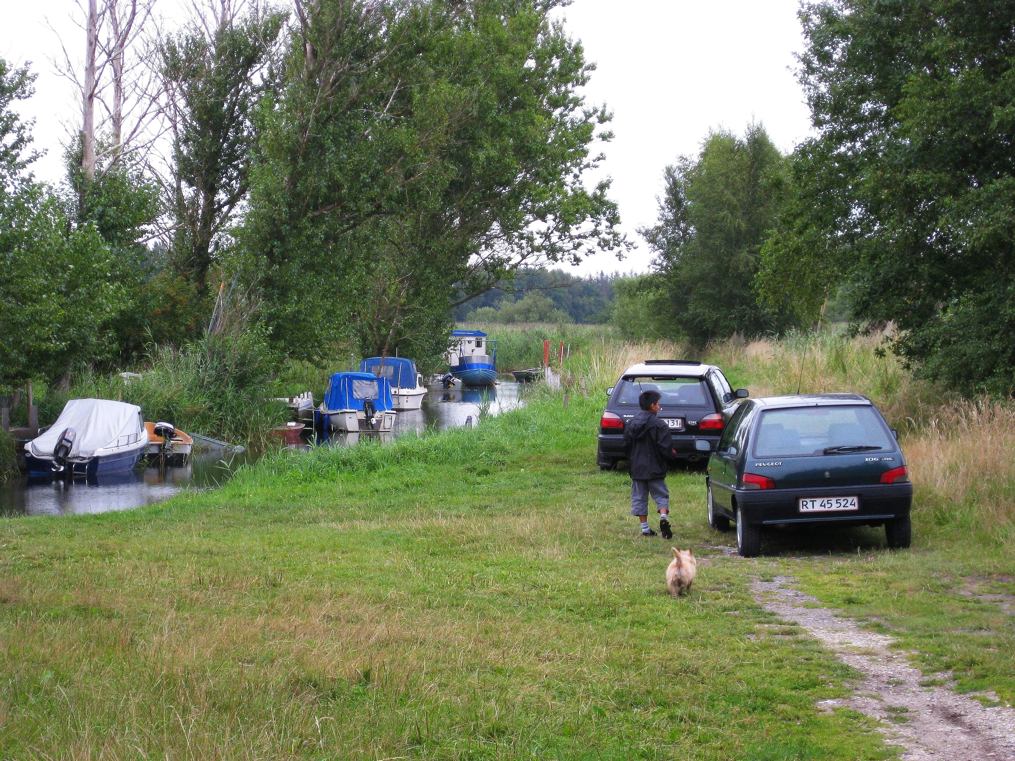 Hidden Marina, Djursland